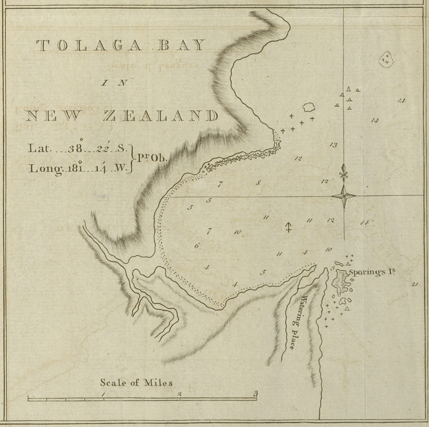 Fragement of a Chart of River Thames, Mercury Bay, Bay of Islands, and Tolaga Bay. Gives bathymetric soundings, relief with hachures, track of 'Endeavour' and rocks. From: J. Hawksworth. 'An account of the voyages undertaken...discoveries in the Southern hemisphere...' London: W. Strahan & T. Cadell, 1773.